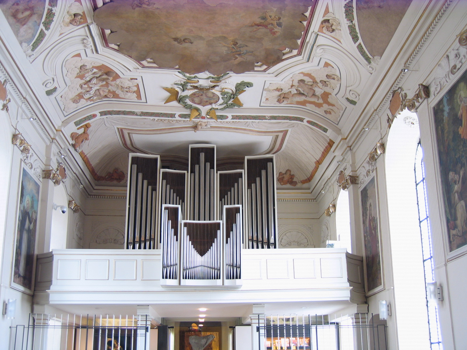 in Herford, District of Herford, North Rhine-Westphalia, Germany.